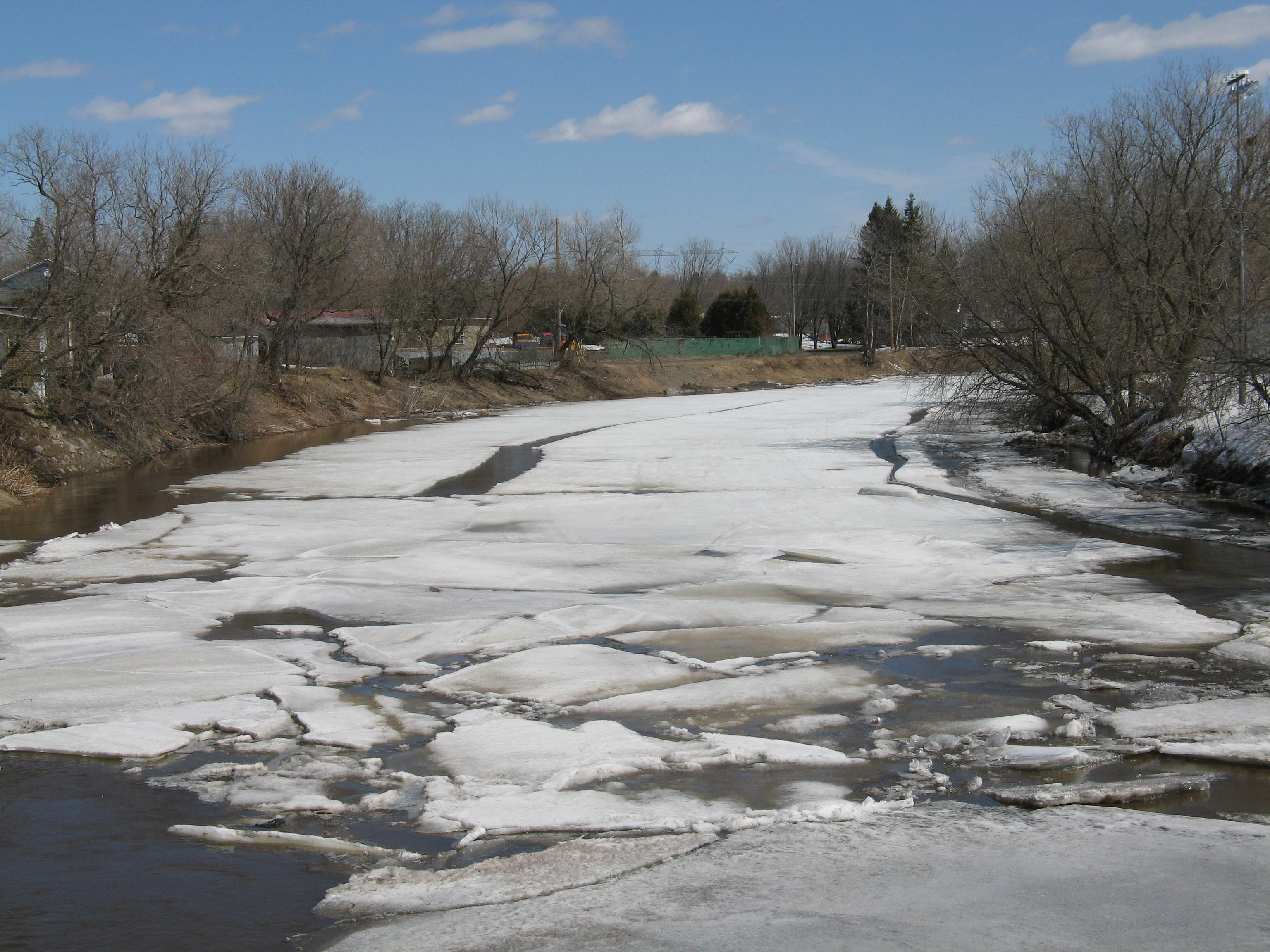 The Beaurivage river in Saint-Étienne-de-Lauzon, a neighborhood of Lévis, Quebec.